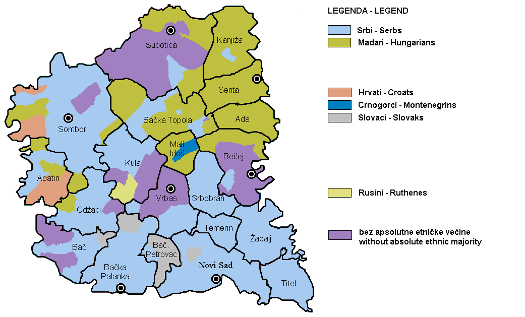 created from this map